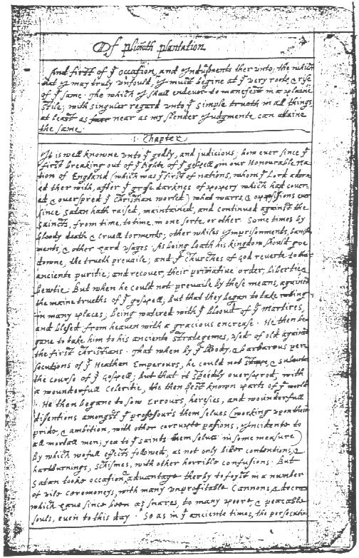 Front page of William Bradford's journal Of Plymouth Plantation